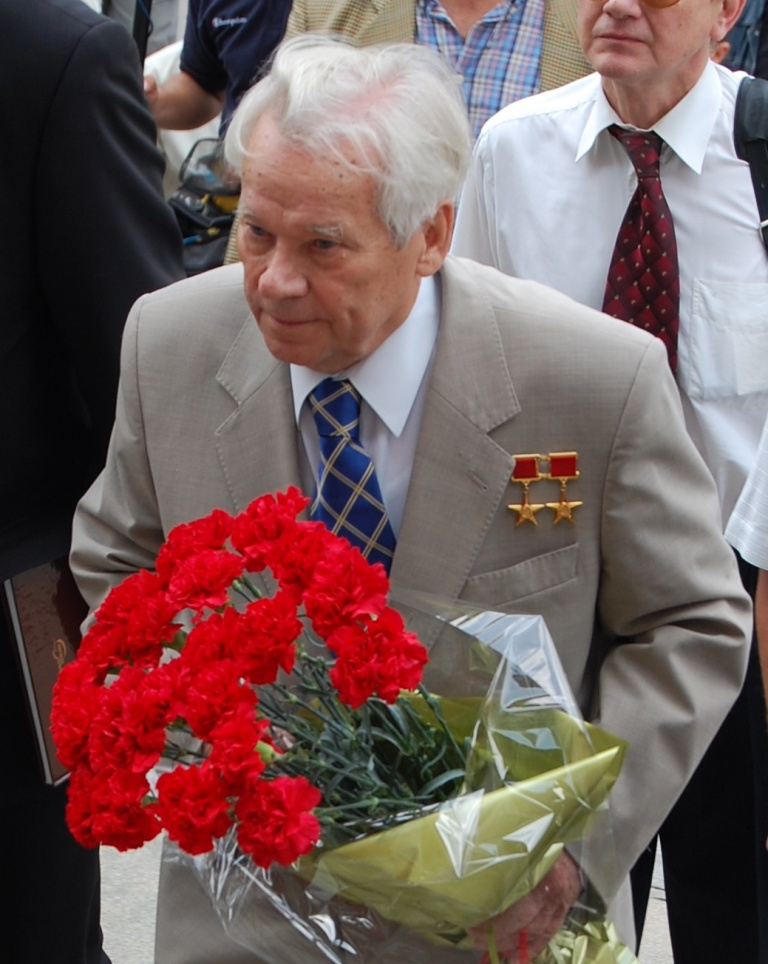 Mikhail Kalashnikov in Army Museum, Moscow, Russia (2007)